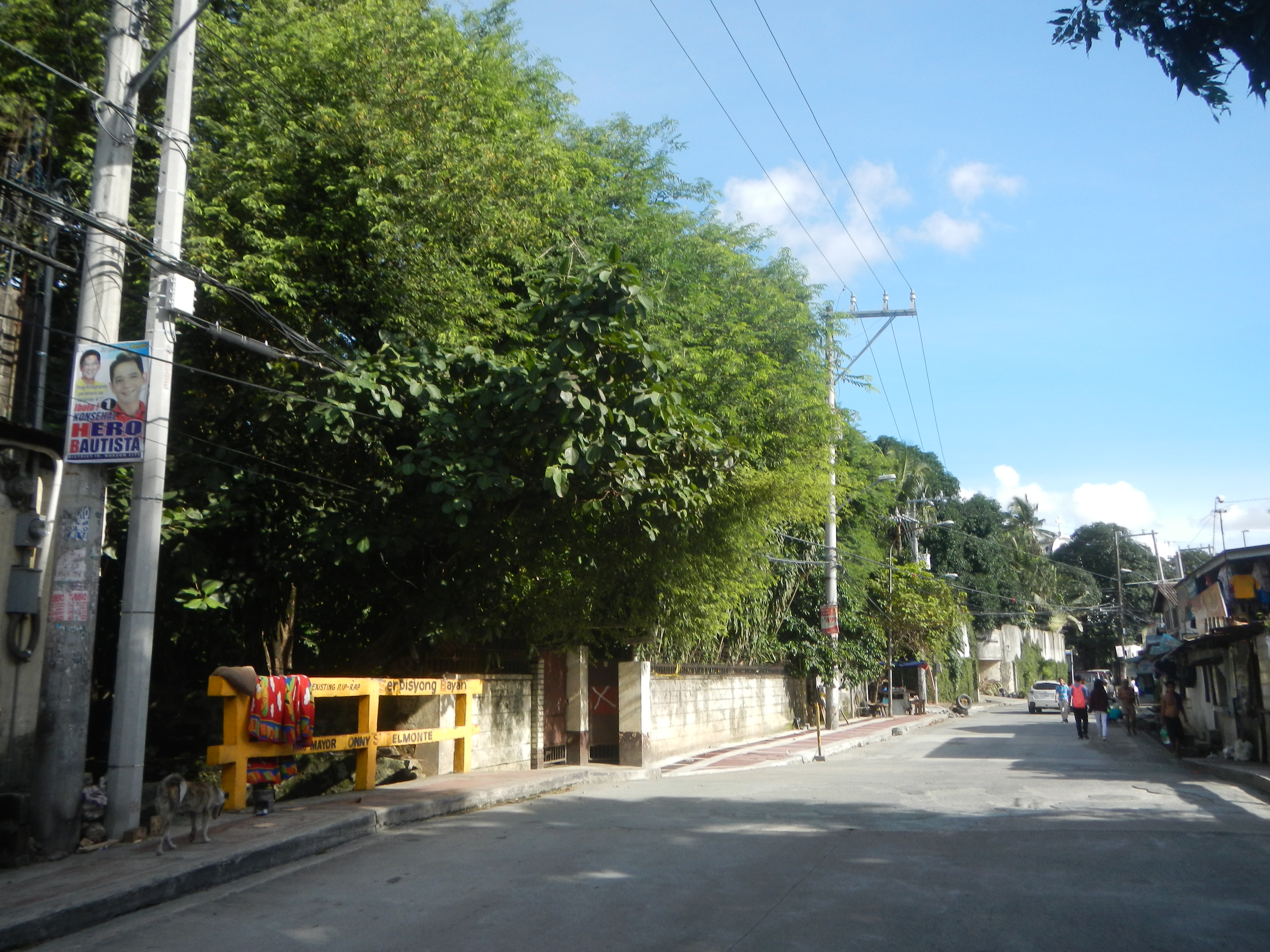 Betty Go-Belmonte Street going south towards the Ilang-Ilang Street intersection at the boundary of Barangays Mariana and Immaculate Conception, Quezon City, (Note: Judge Florentino Floro, the owner, to repeat, Donor Florentino Floro of all these photos hereby donate gratuitously, freely and unconditionally all these photos to and for Wikimedia Commons, exclusively, for public use of the public domain, and again without any condition whatsoever). Tagalog: Patimog na Kalye Betty Go-Belmonte patungong sangandaan ng Kalye Ilang-Ilang sa hangganan ng mga Barangay Mariana at Immaculate Conception, Lungsod Quezon.